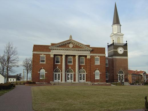 The 1926 John Gano chapel and clock, William Jewell College, Liberty, Missouri.